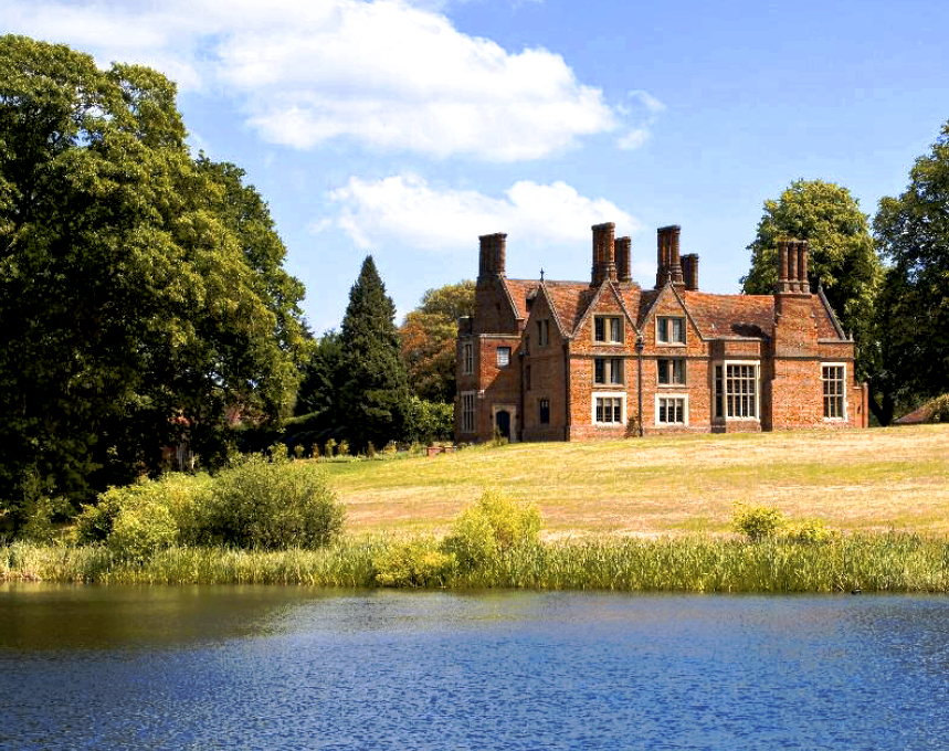 The Manor House, Stoke Poges, Buckinghamshire